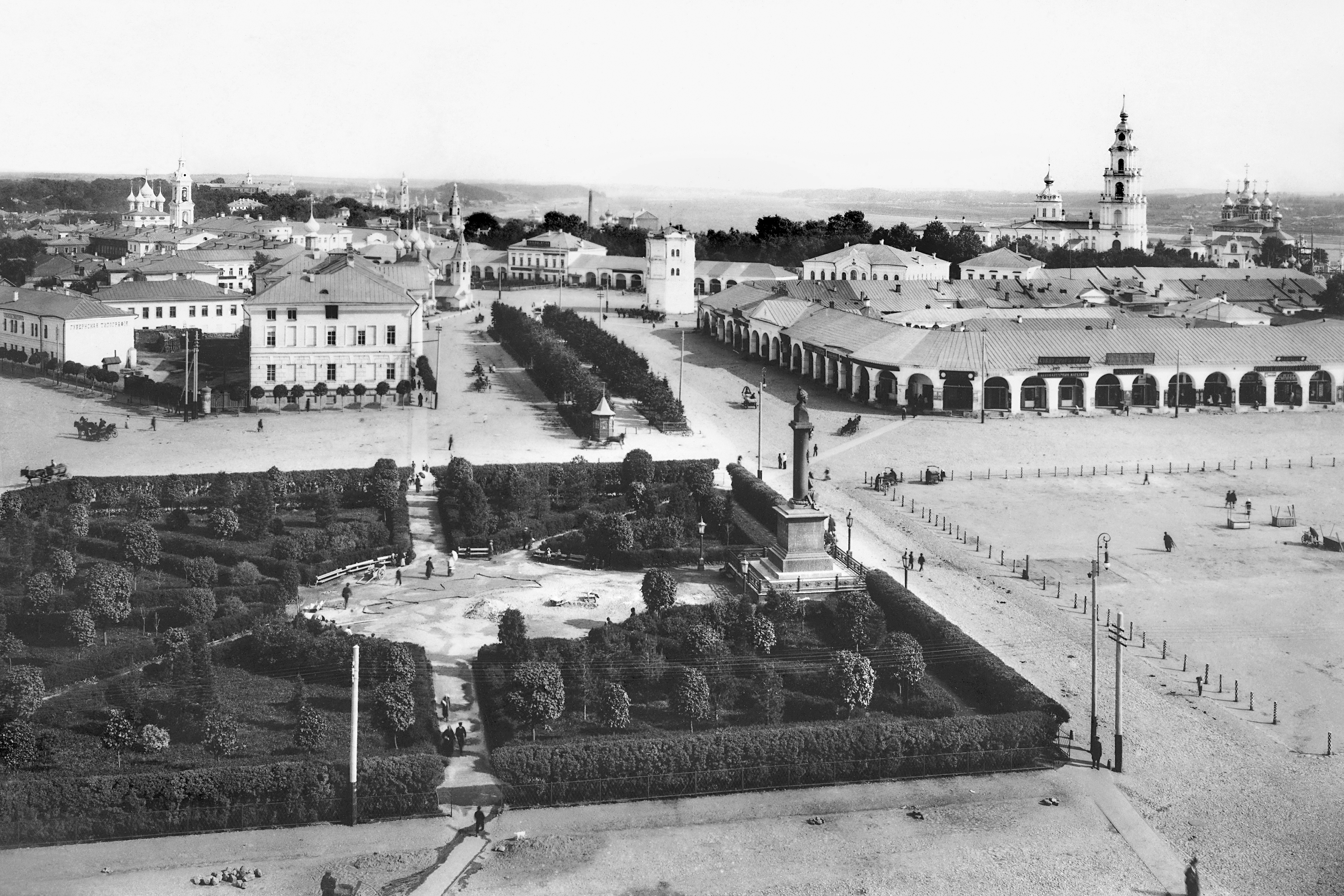 View from the Kostroma Fire Tower toward the city center